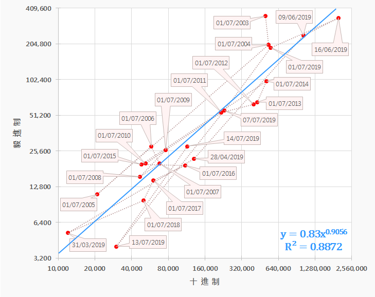 The relationship between decimal and yijincimal